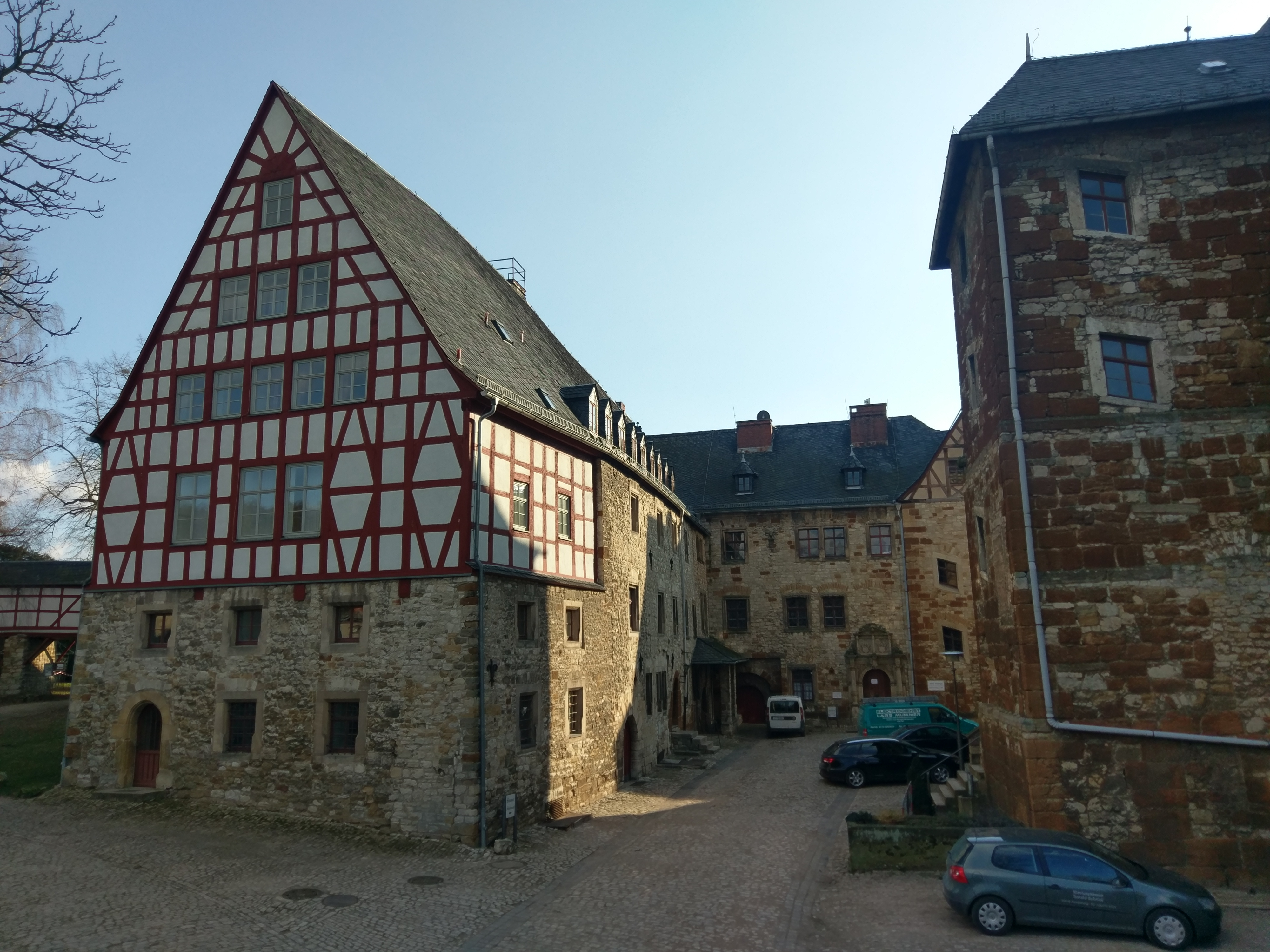 Blick in den Schlosshof zwischen Neuen Schloss (li.) und dem sog. "Hohen Haus". Hier rechts zu erkennen: der Treppenturm des "Hohen Hauses".